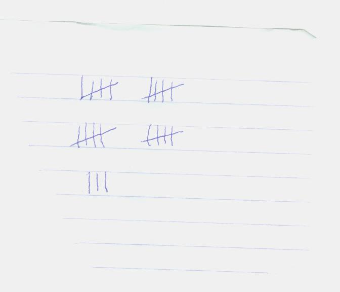 Paper with number 23 tallied by hand.